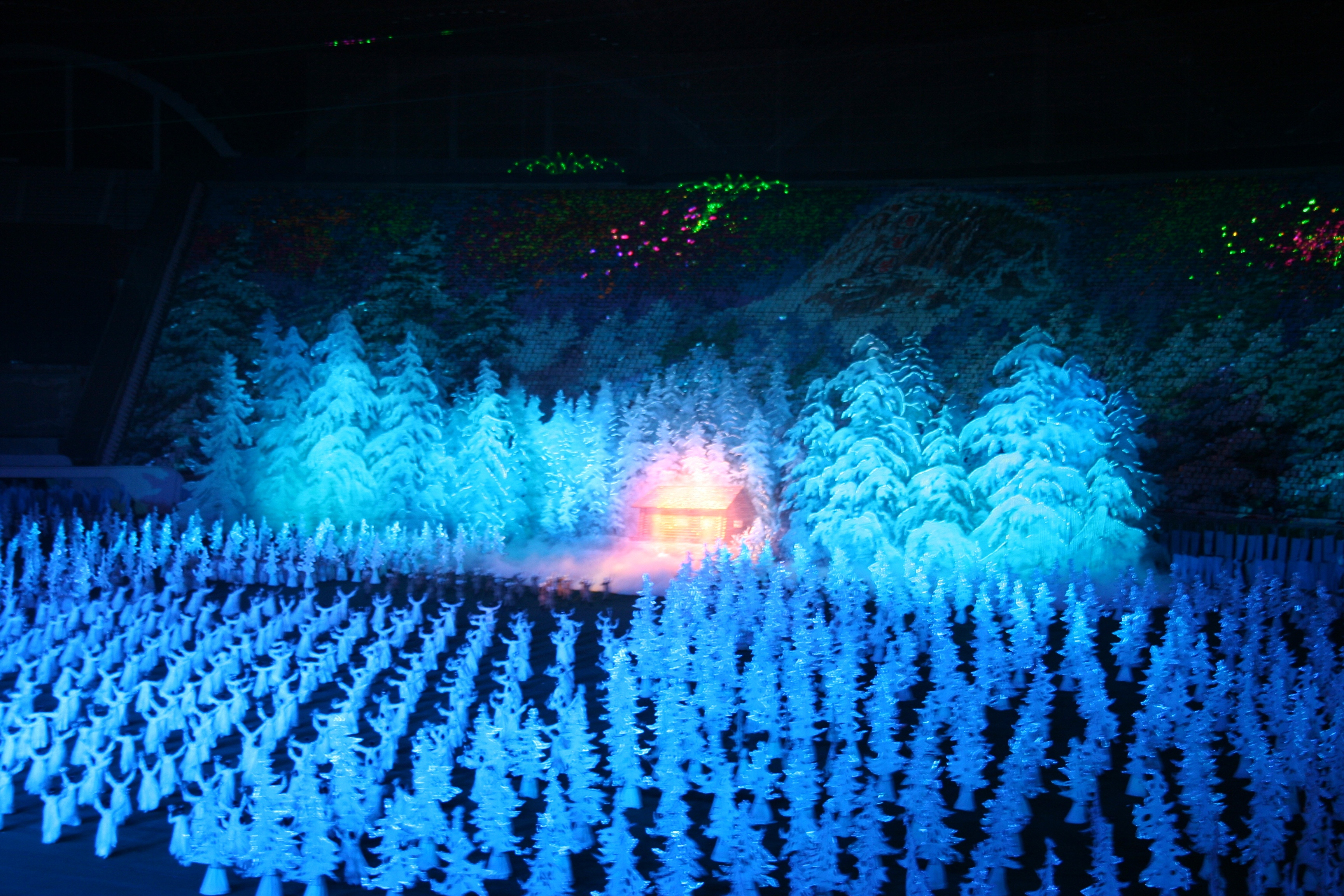 Arirang Mass Games, Pyongyang